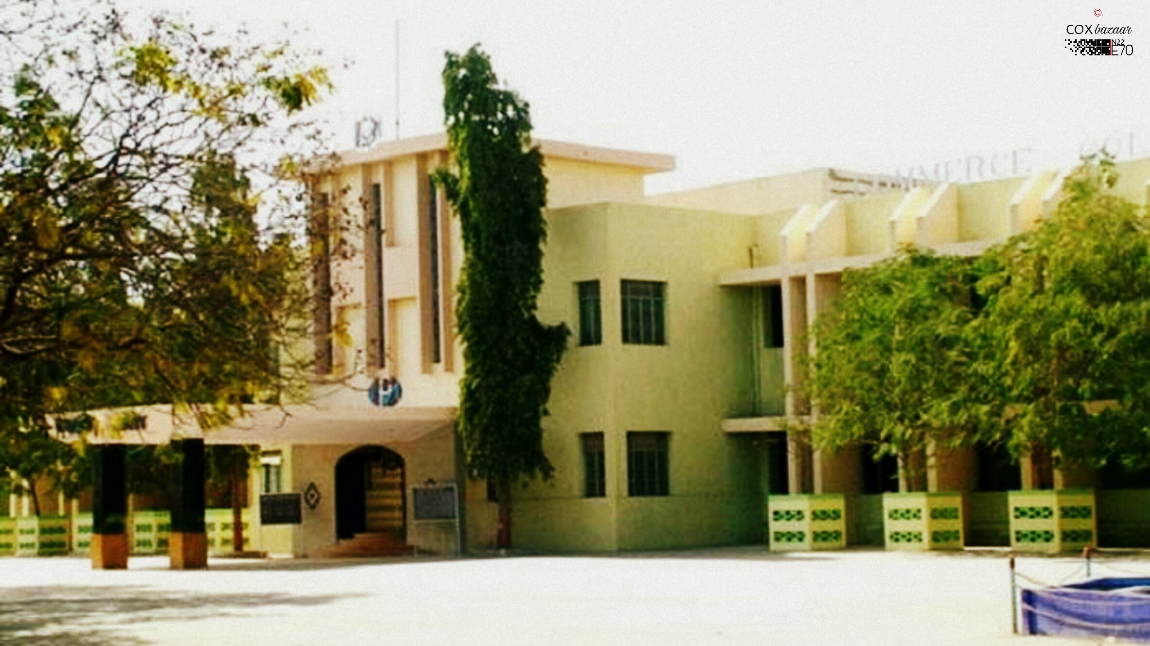 View of PDM College campus